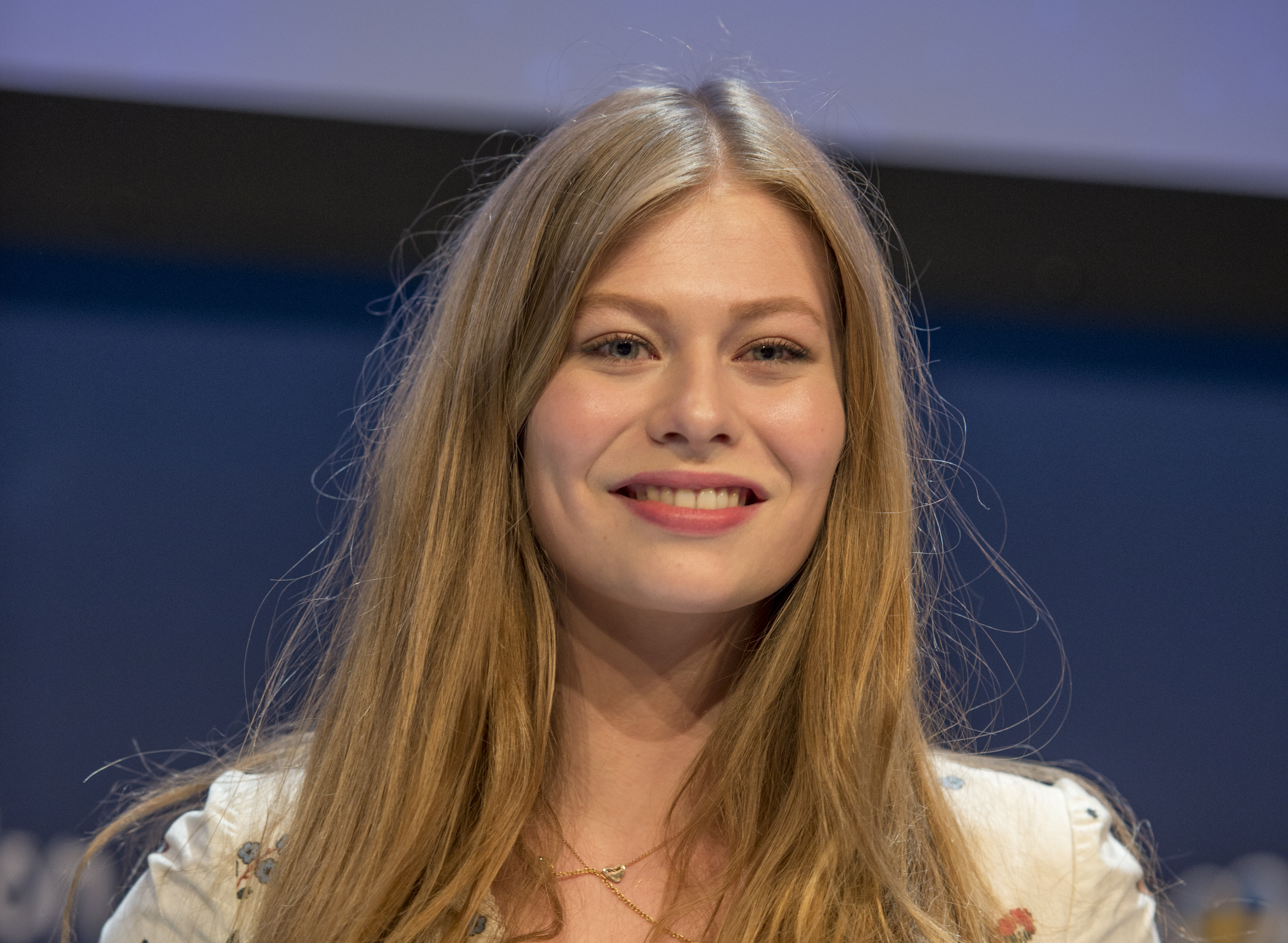 Zoë at a Meet & Greet during the Eurovision Song Contest 2016 in Stockholm. (Help translate this text)